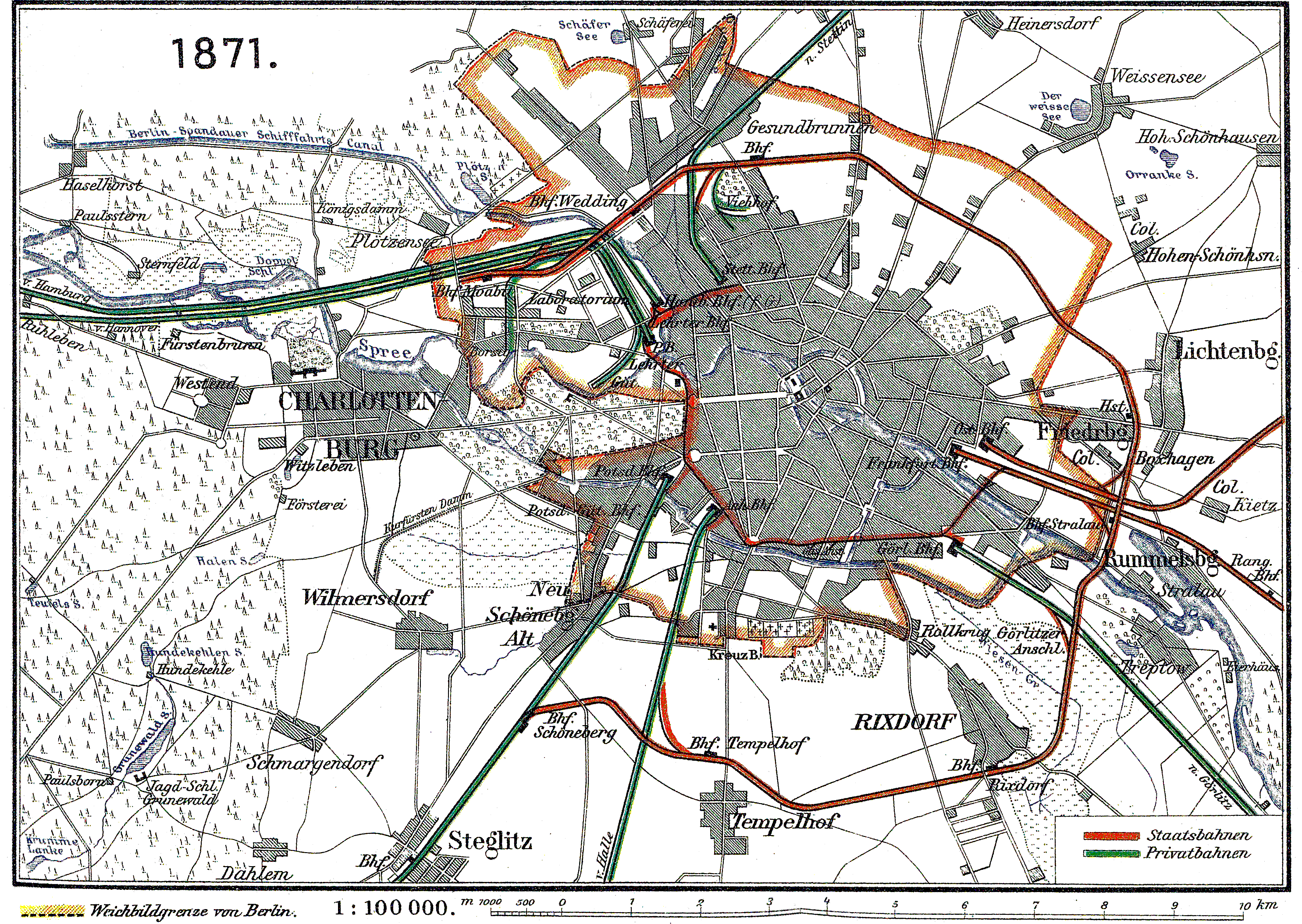 Evolution of rail transport in Berlin and its successive nationalization. Situation in 1896